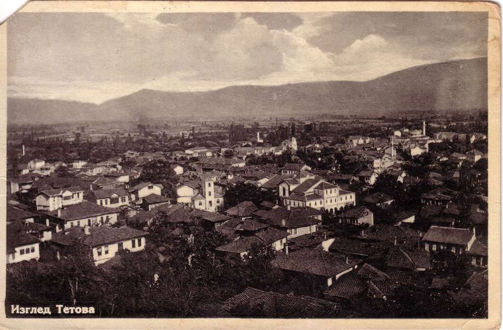 Old post card from Tetovo, Macedonia